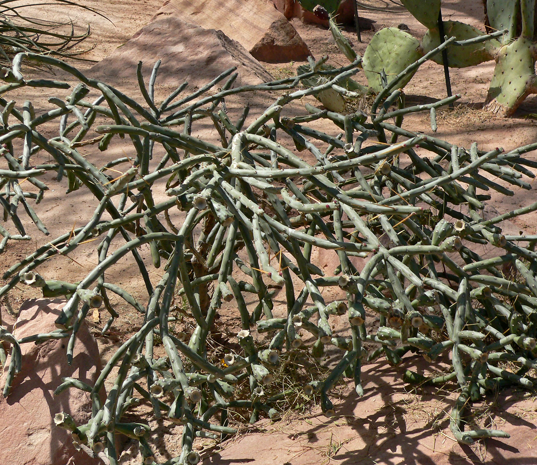 Cylindropuntia arbuscula at the Springs Preserve garden, Las Vegas, Nevada